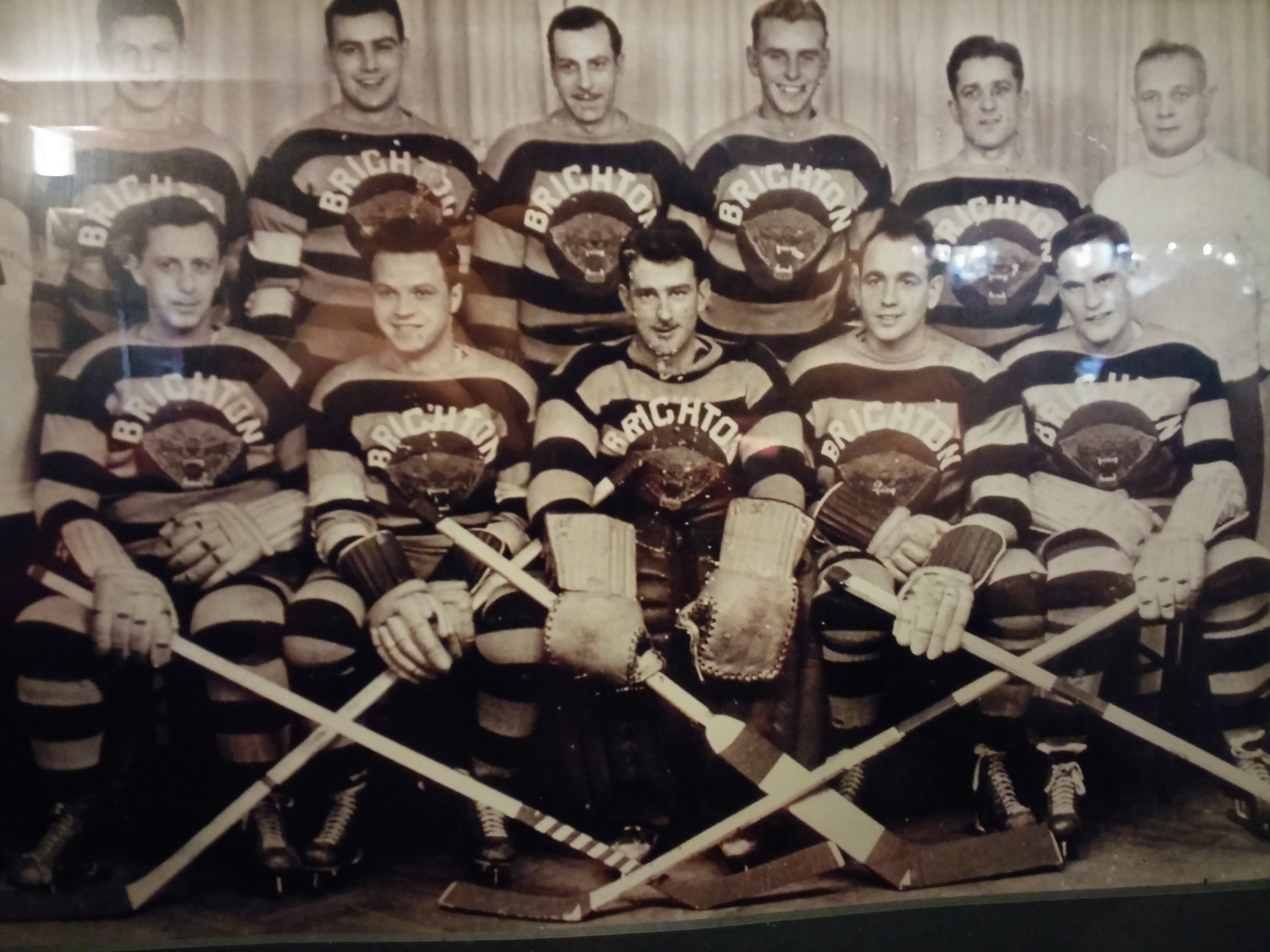 A shot of the Brighton Tigers Ice Hockey Team taken in the late 1930's. Author unknown. Found hanging on the wall of The Basketmakers Arms pub in Brighton on 06/02/2015. Any more information is welcome.